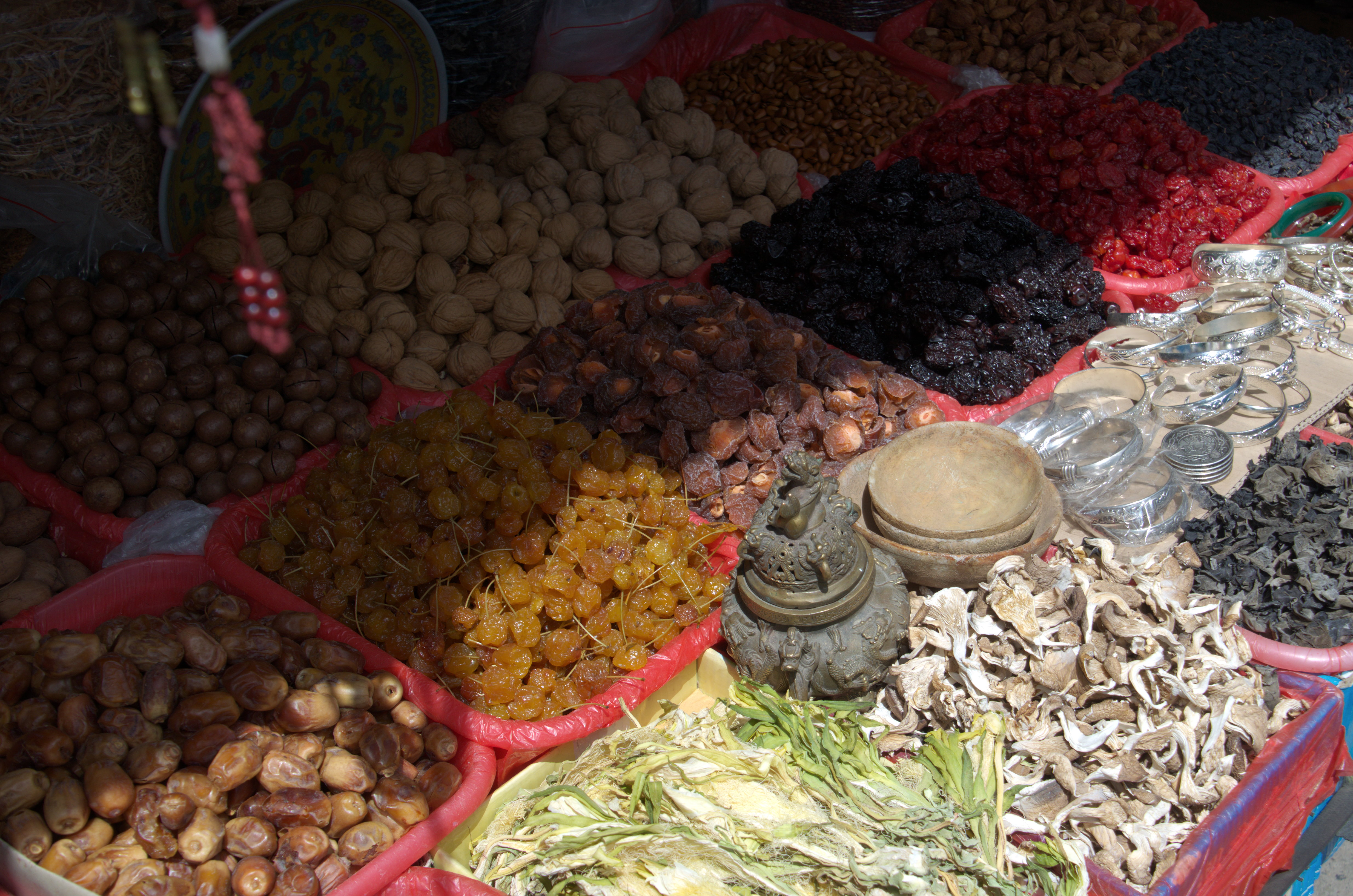 Dried food (fruits, legumes, mushroom) and few silver bracelet in a little Qiang people market near the center of Wenchuan County, Sichuan province, People Republic of China.